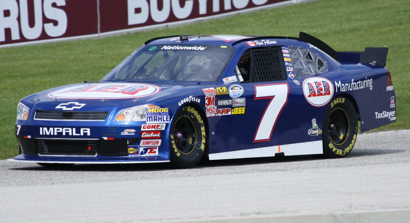 NASCAR driver Ron Fellowsl racing his stock car at Road America at the 2011 Bucyros 200 Nationwide Series race.